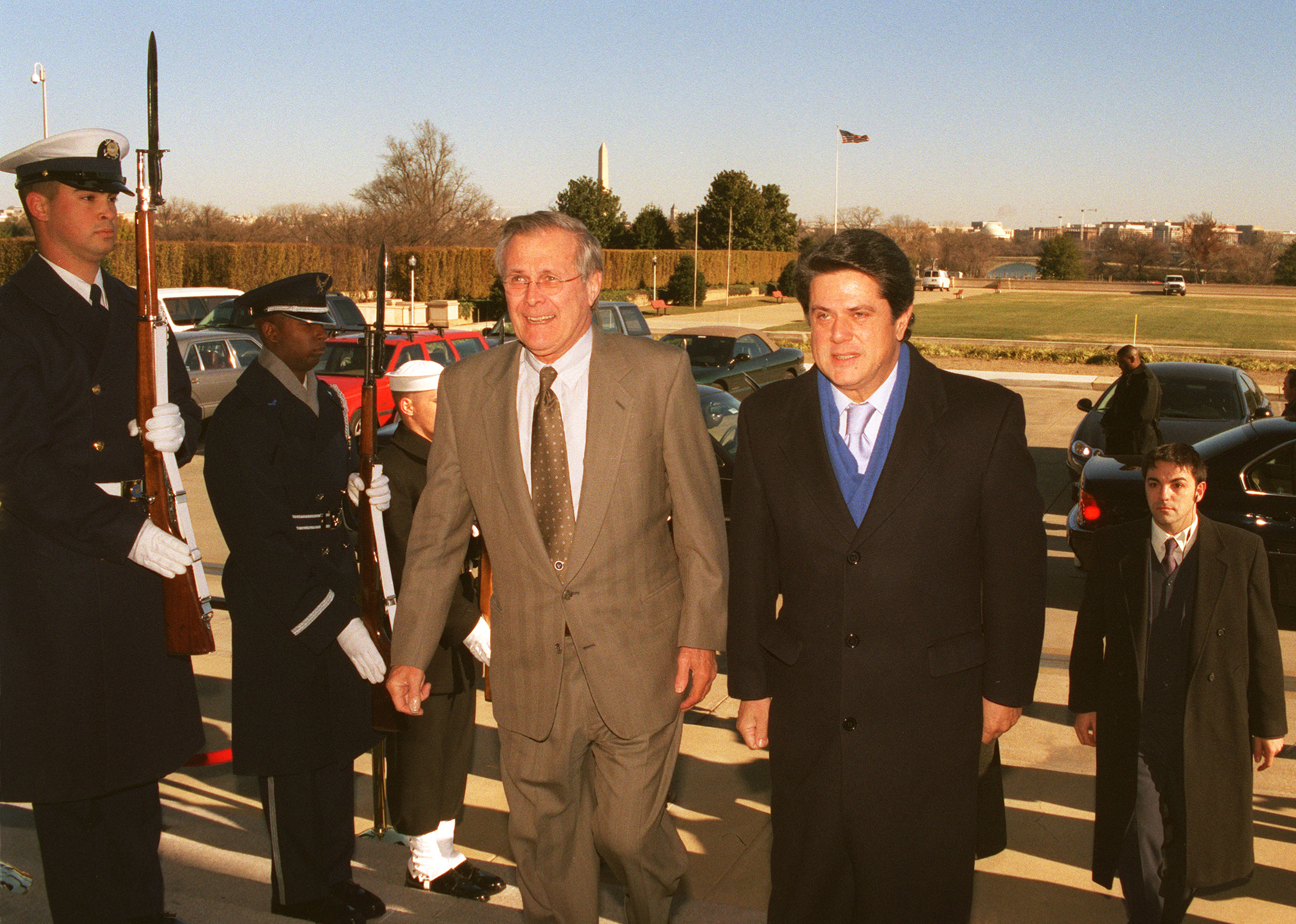 Secretary of Defense Donald H. Rumsfeld (left) escorts Spanish Minister of Defense Federico Trillo (right) into the Pentagon on Dec. 3, 2002. The two defense leaders will meet to discuss bilateral security issues and sign documents formalizing military cooperation programs between the two nations.